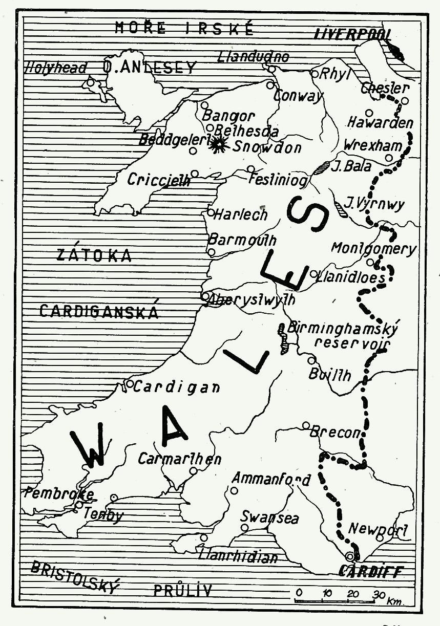 Map of Wales in 1932. The descriptions are in Czech.